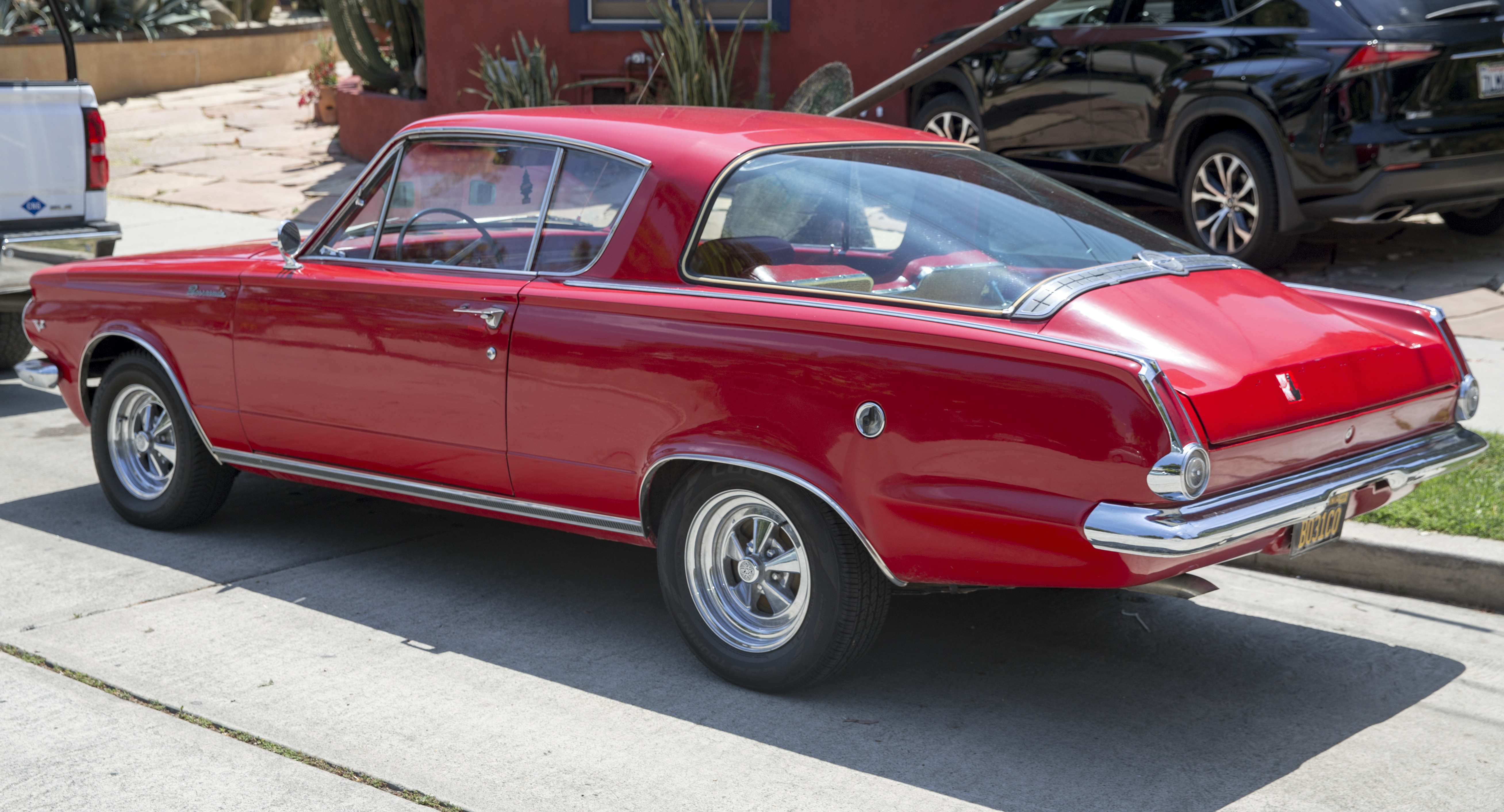 1965 Plymouth Barracuda V8 in Los Angeles.